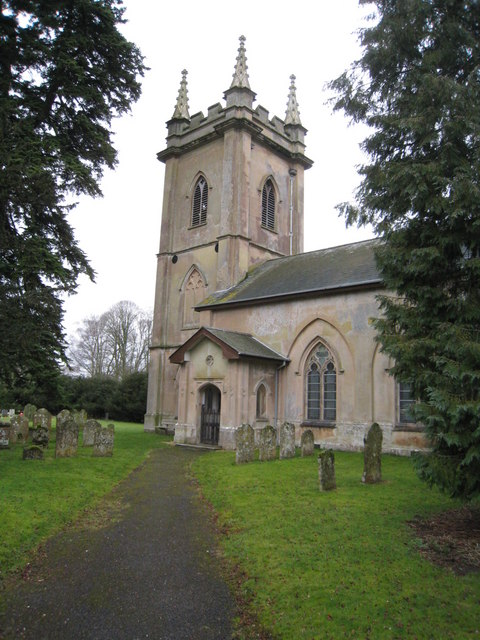 West tower and south porch of All Saints' parish church, Deane, Hampshire, seen from the southeast